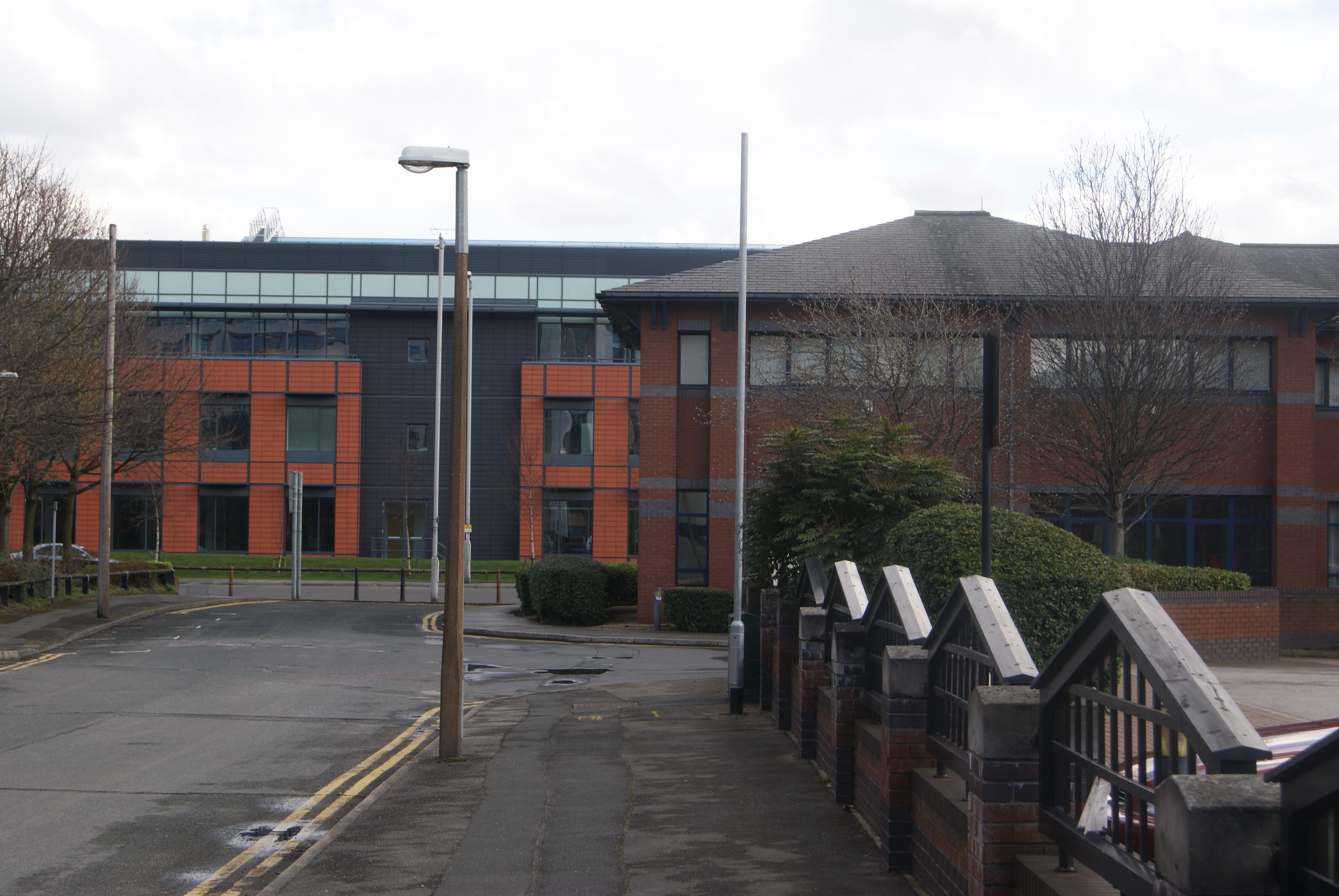 Looking South East down New Lane (LS11), Leeds, West Yorkshire. Taken on the afternoon of Saturday the 3rd of April 2010.